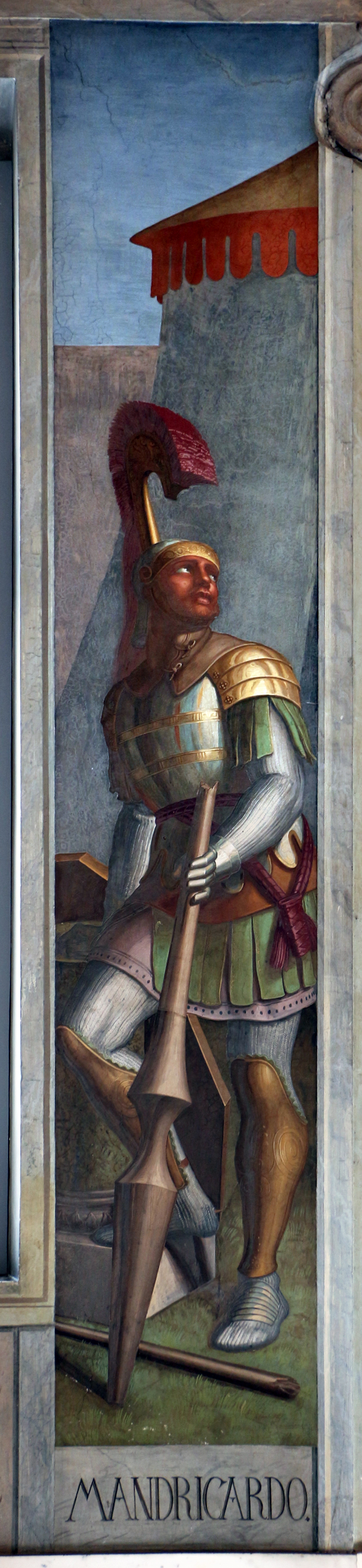 Casa Massimo frescos - stanza di Ariosto